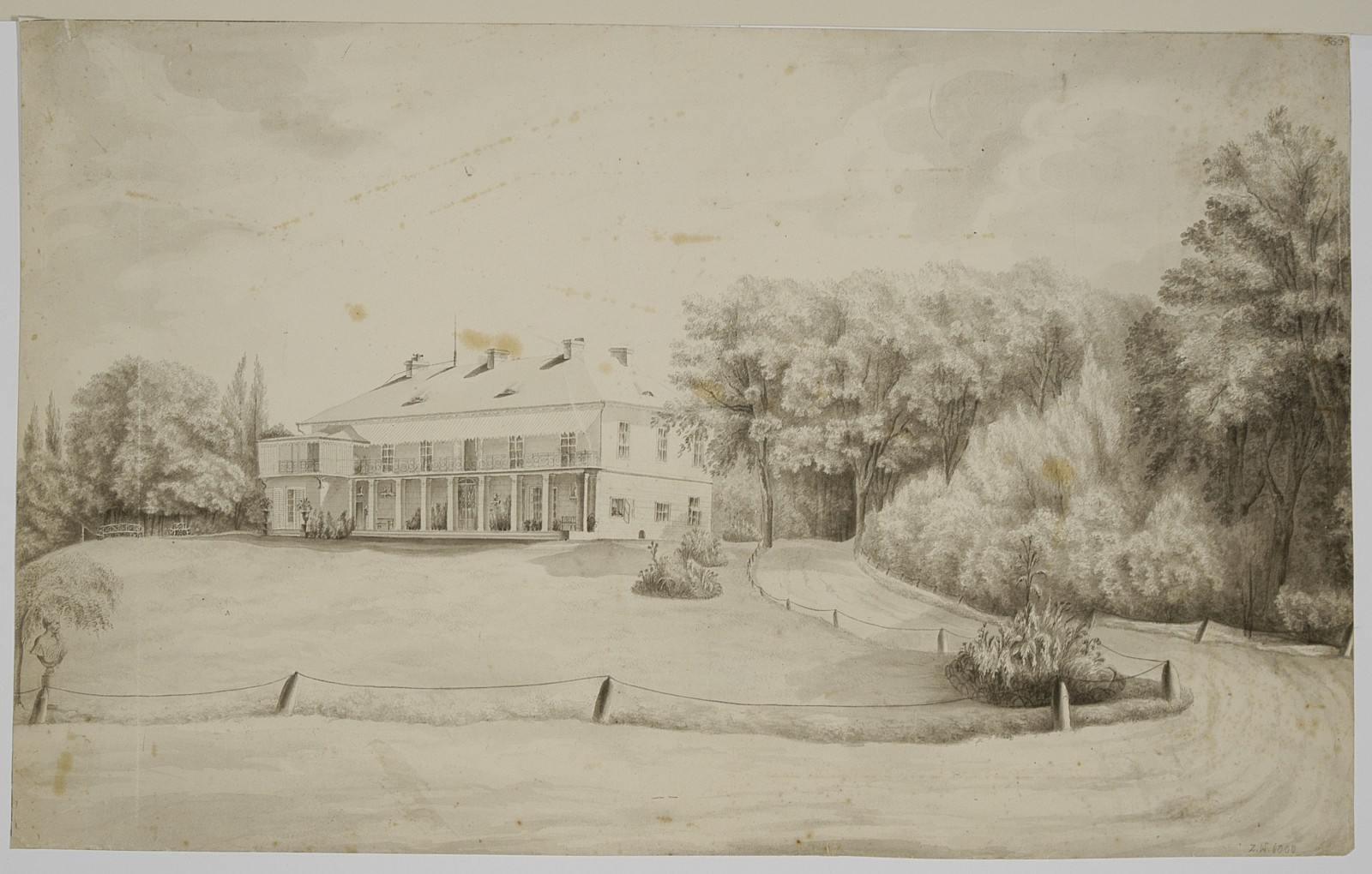 Palace of Lubomirski's Family in Przeworsk - archival photo.